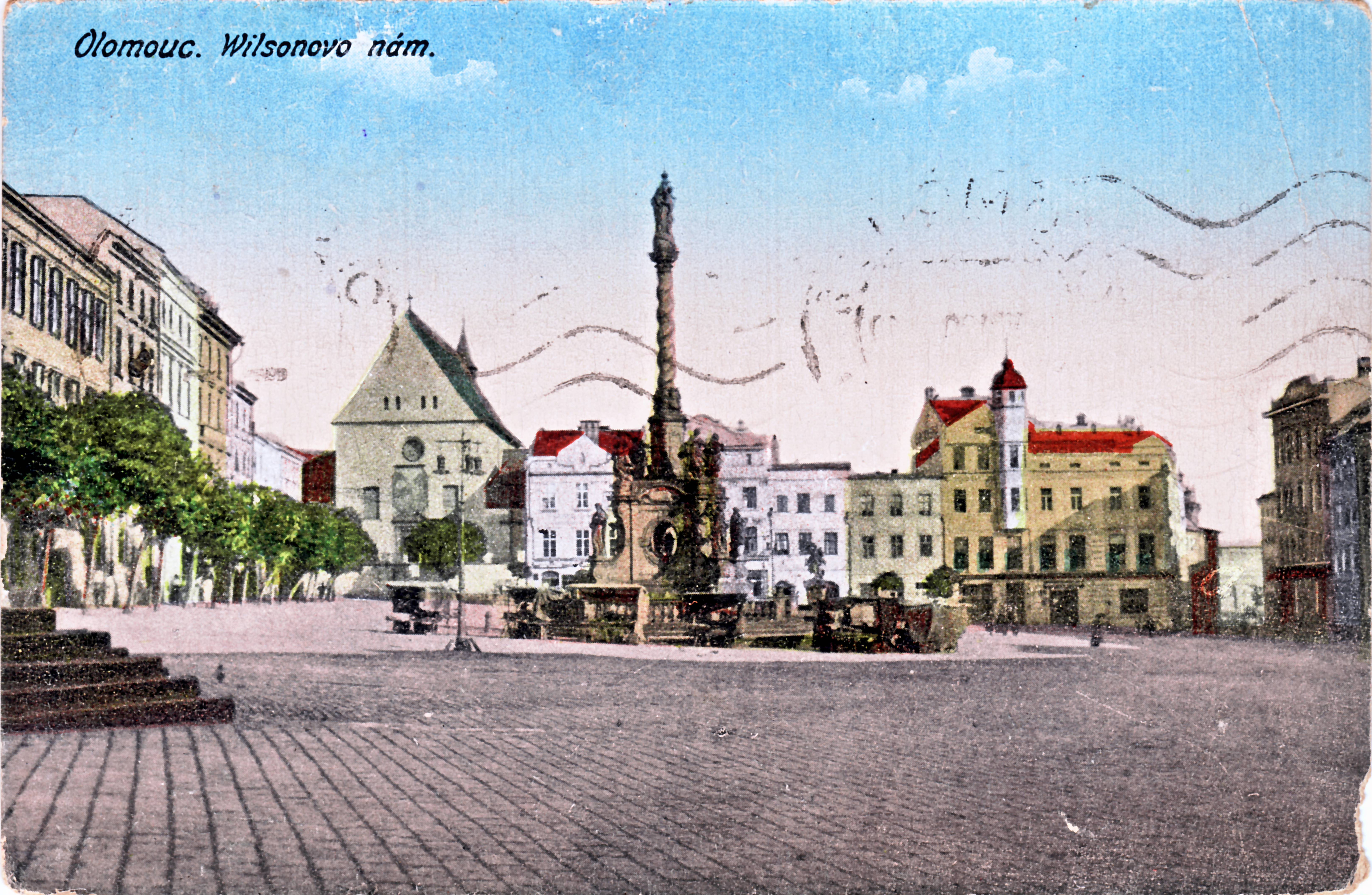 Historical postcard of Wilsonovo náměstí (nowadays Dolní náměstí) in Olomouc.